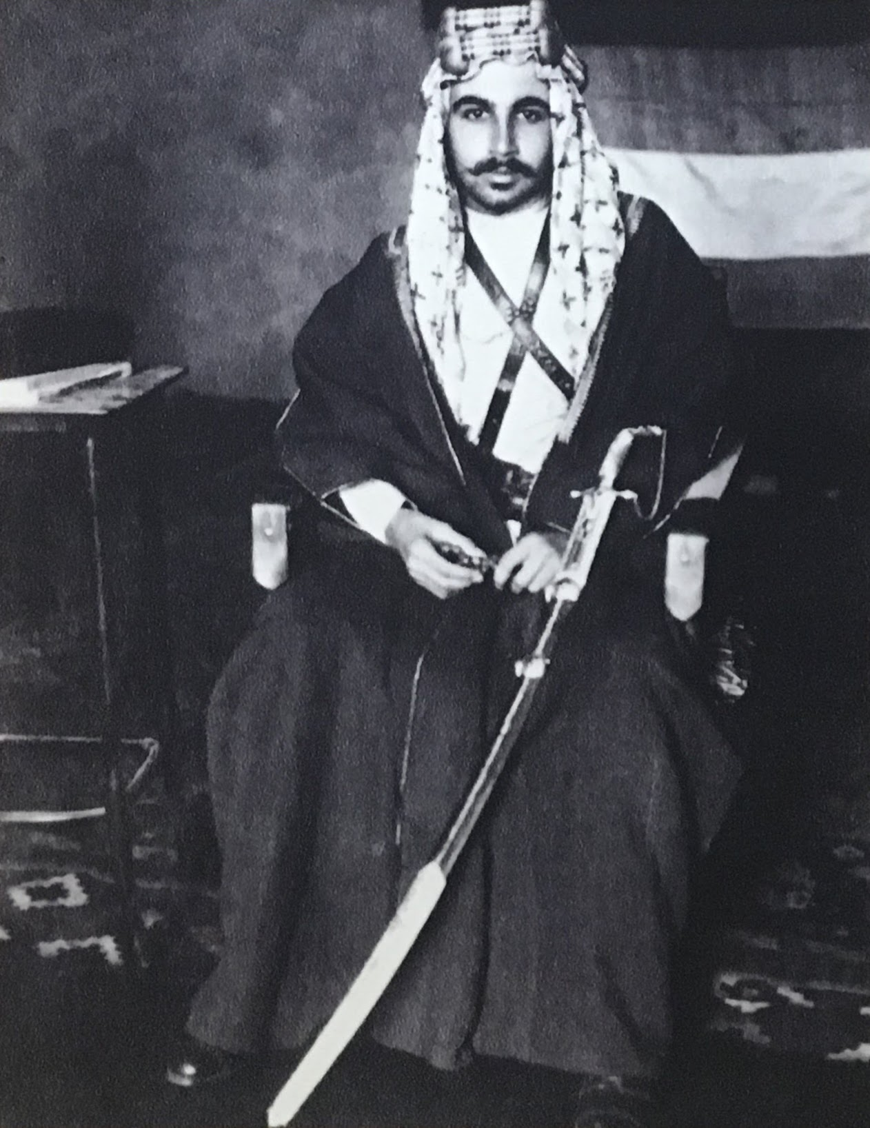 A photo of King Faisal I of Iraq taken circa the early 1900's. Housed at the American Museum of Natural History in New York City.